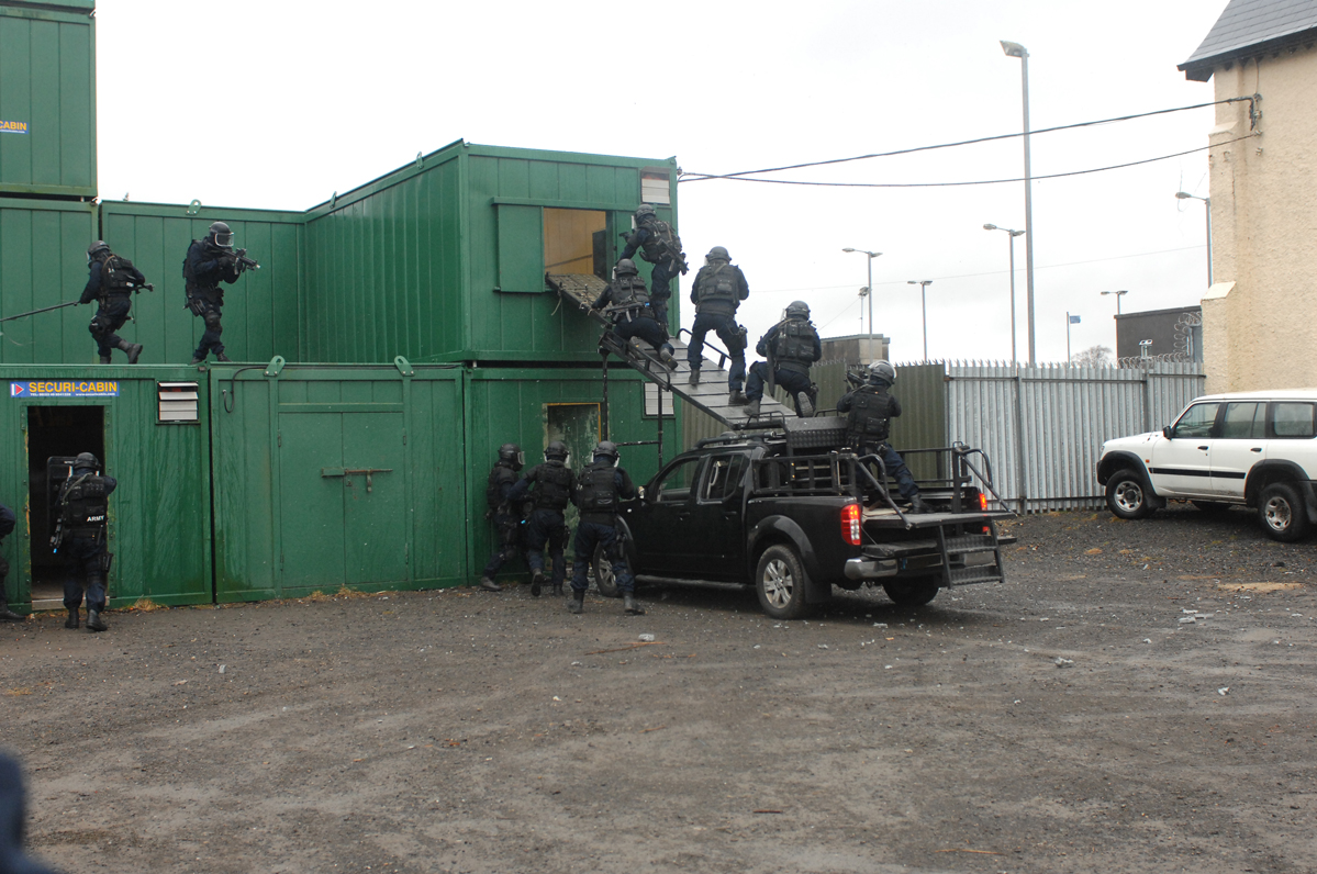 Irish Army Ranger Wing (ARW) counter terrorism demonstration for ARW 30th Anniversary.